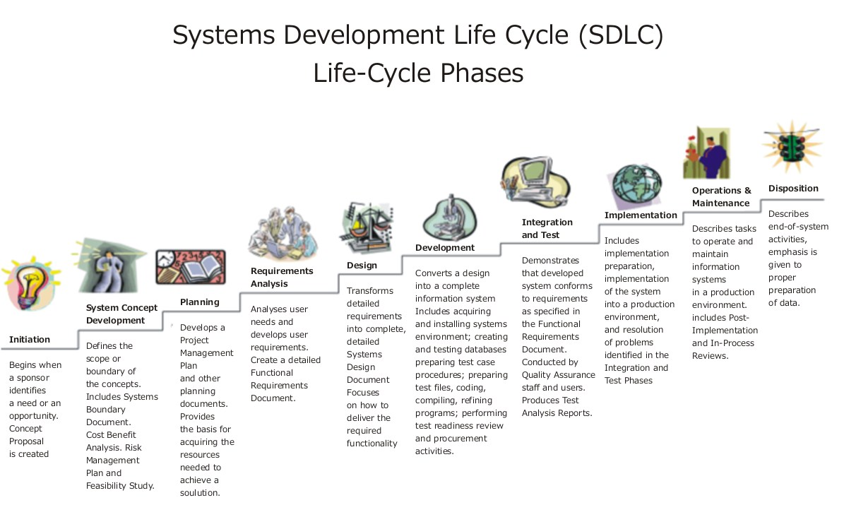 Systems Development Life Cycle